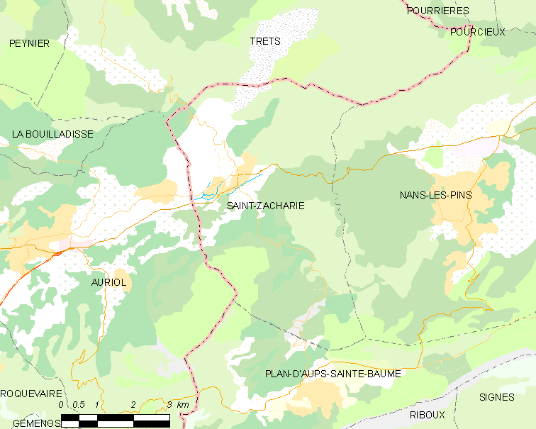 Map of French municipality Saint-Zacharie